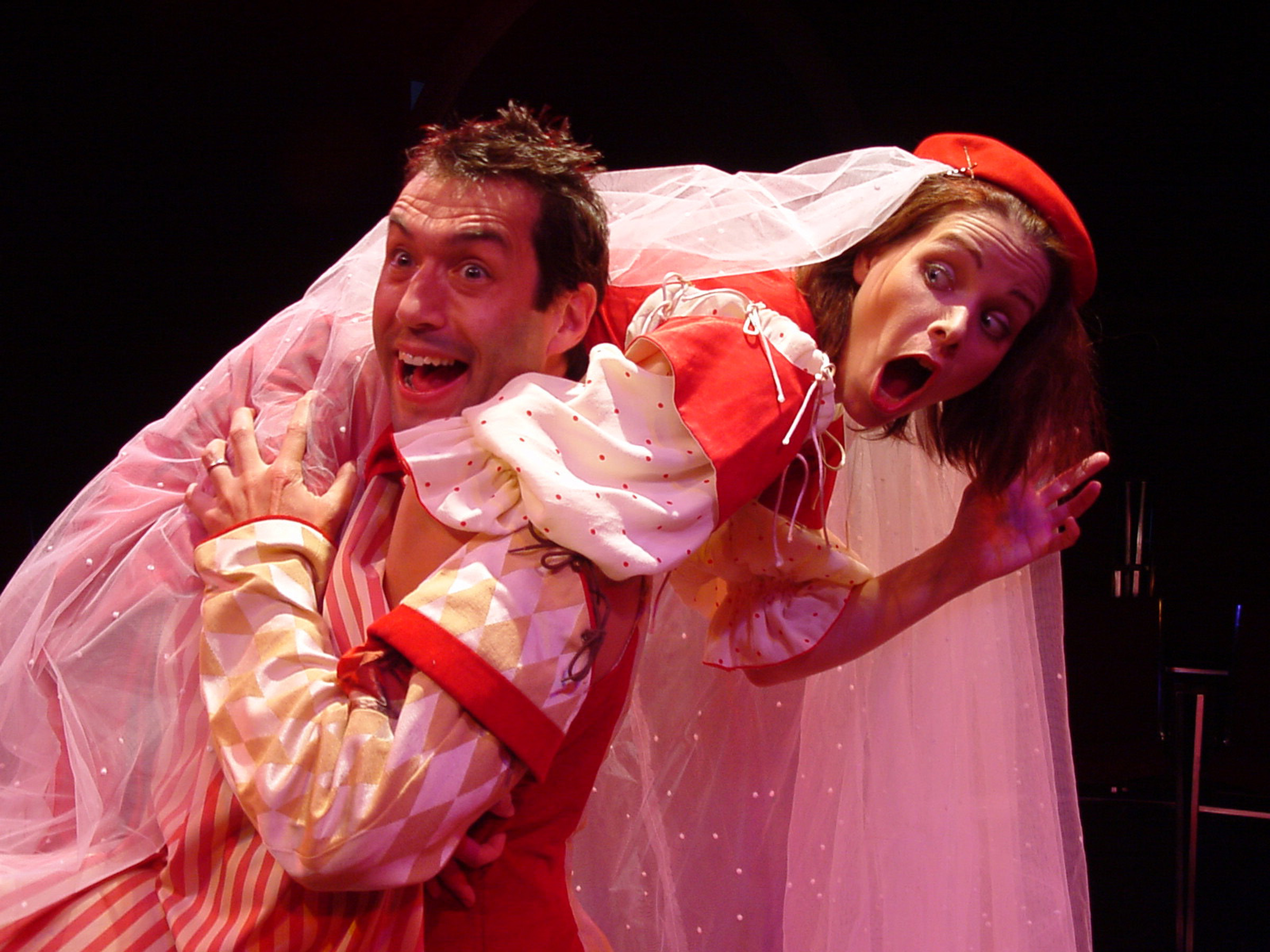 Petruchio (Kevin Black) and Kate (Emily Jordan) from a Carmel Shakespeare Festival production of "The Taming of the Shrew" at the outdoor Forest Theater in Carmel, CA., Oct, 2003.